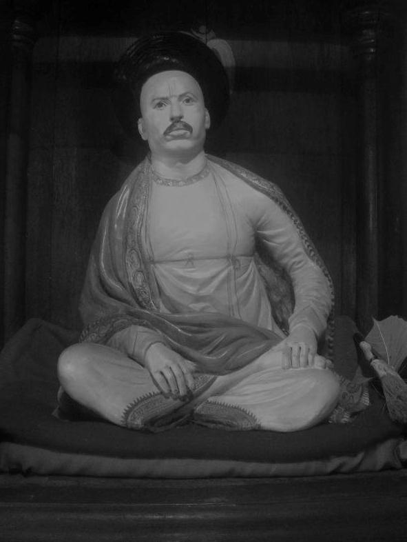 Shrimant Bhausaheb Laxman Javale alias Shrimant Bhausaheb Rangari Founder of Sarvajanik Ganesh Festival in world.